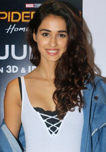 Disha Patani snapped at Spider Man Homecoming screening.